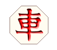 One of the janggi pieces.